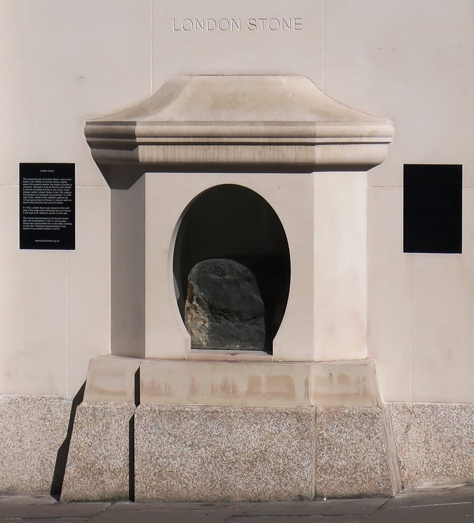 London Stone, Cannon Street, London, in its current casing, unveiled in October 2018